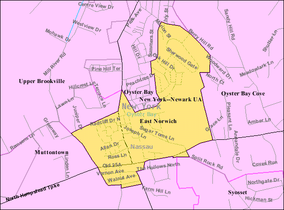 U.S. Census 2000 reference map for East Norwich, New York